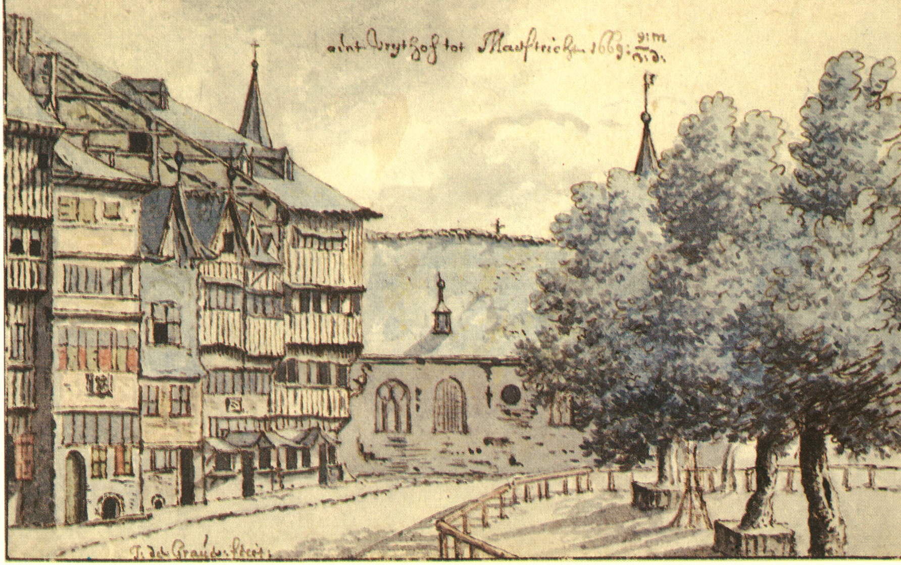 The southeastern corner of Vrijthof square in Maastricht, Netherlands, in 1669. To the right: Saint Servatius guest house and chapel. Pen drawing, washed in colour, by Josua de Grave, 1669. 9,5 x 15 cm. Collection: Teylers Museum, Haarlem, Netherlands.